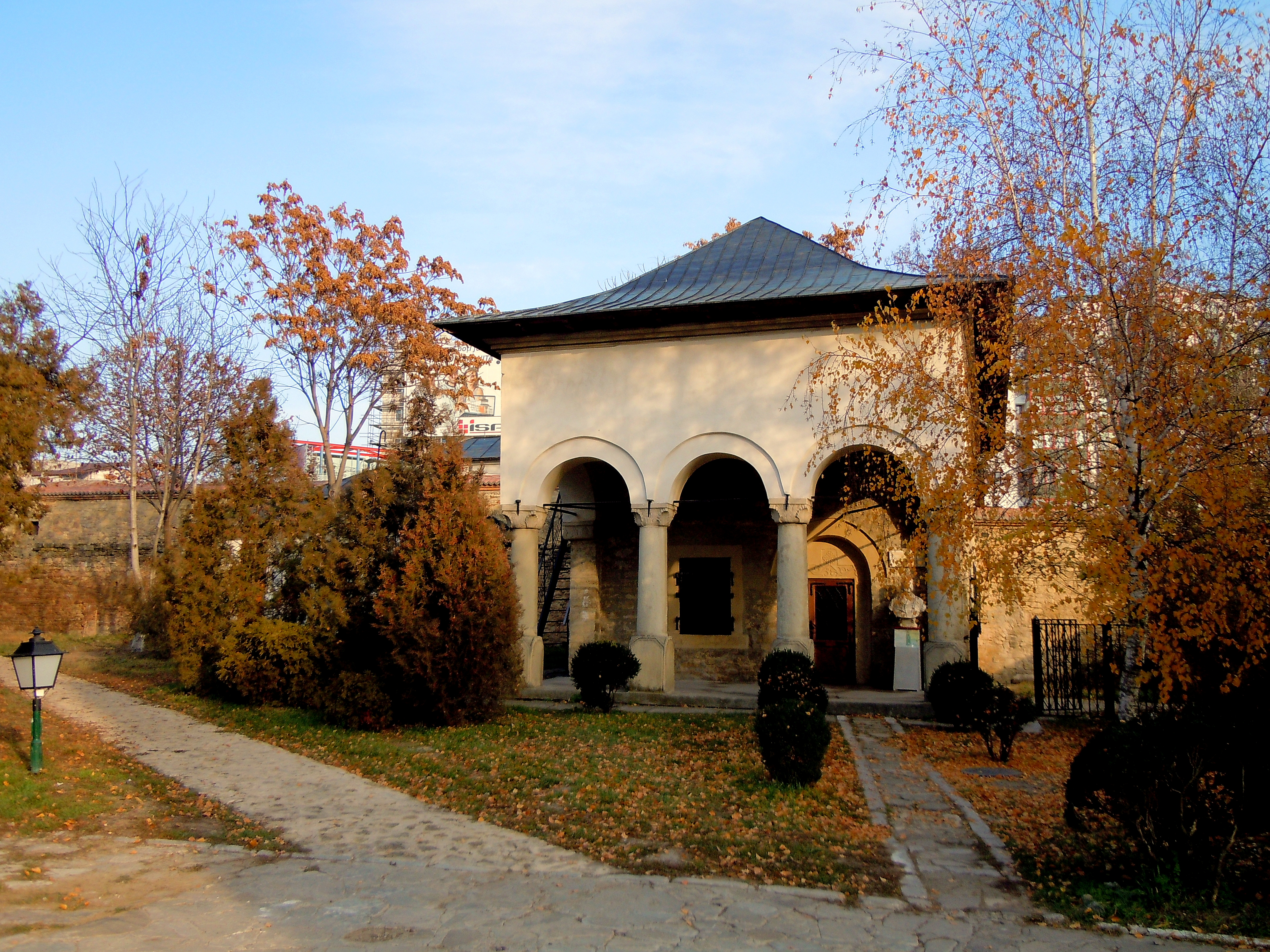 Ion Creanga House of Golia monastery in Iași , Iaşi , Romania